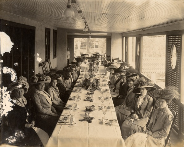 On May 17, 1910, members of the Junior and Senior classes at Lenox Hall and their principal, Louise Thomas, were guests of Mabel Gertrude Lewis for a tour of University City, luncheon and an afternoon at Delmar Garden Amusement Park. In this photograph which appeared in "The Woman's National Daily" on May 18, 1910, Edward Gardner Lewis had joined the group for luncheon in the Delmar Pavilion. Lenox Hall was a private school for girls. Their new building in University City was scheduled to be ready in the fall of 1910.